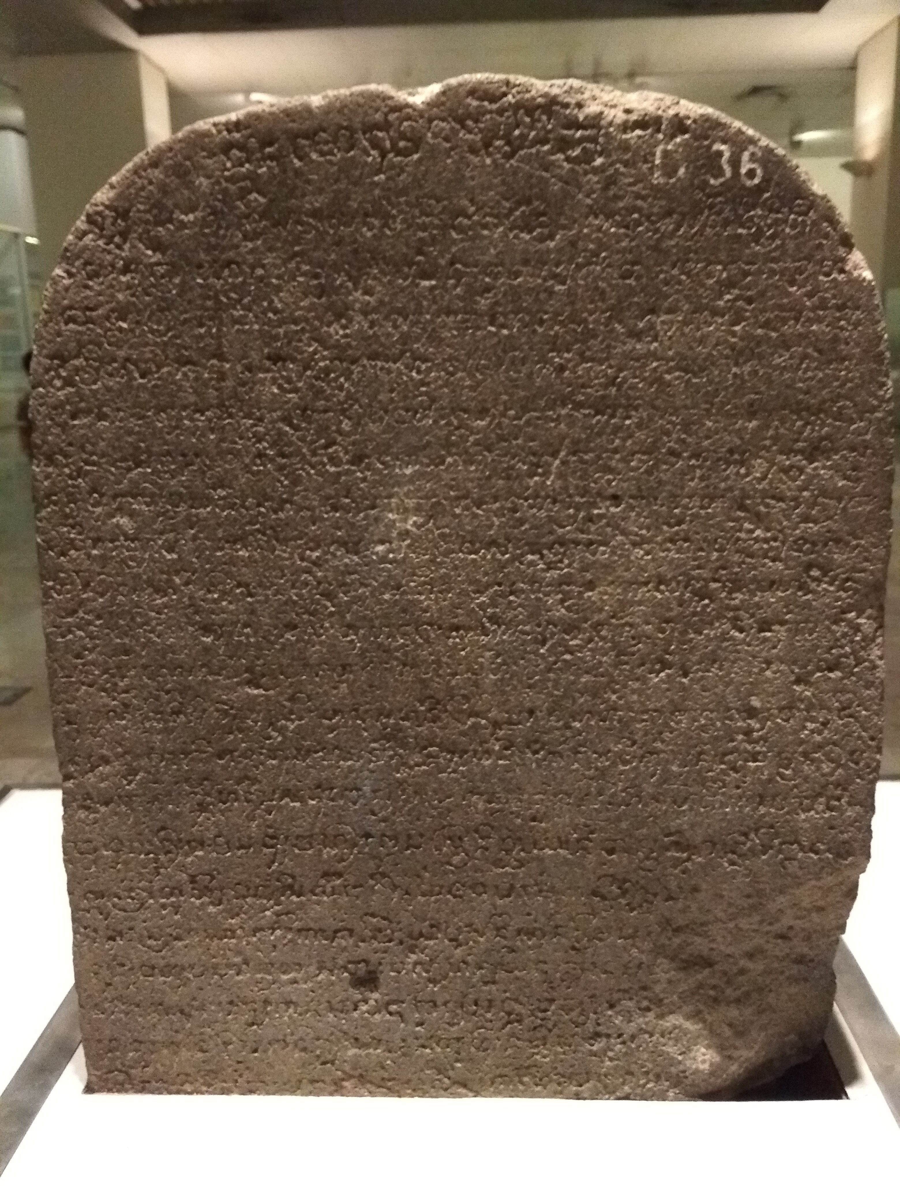 Timbangan Wungkal inscription, found in the hamlet Gatak, the village Bokoharjo, Prambanan, Sleman, Yogyakarta, Indonesia. Dated 193 Sanjaya Varṣā / early 10th A.D. Collection of the National Museum of Indonesia, Inventory no. D. 36.